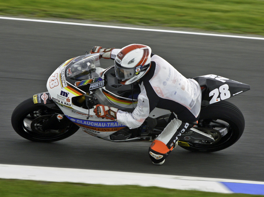 Kazuki Watanabe 2010 Phillip Island